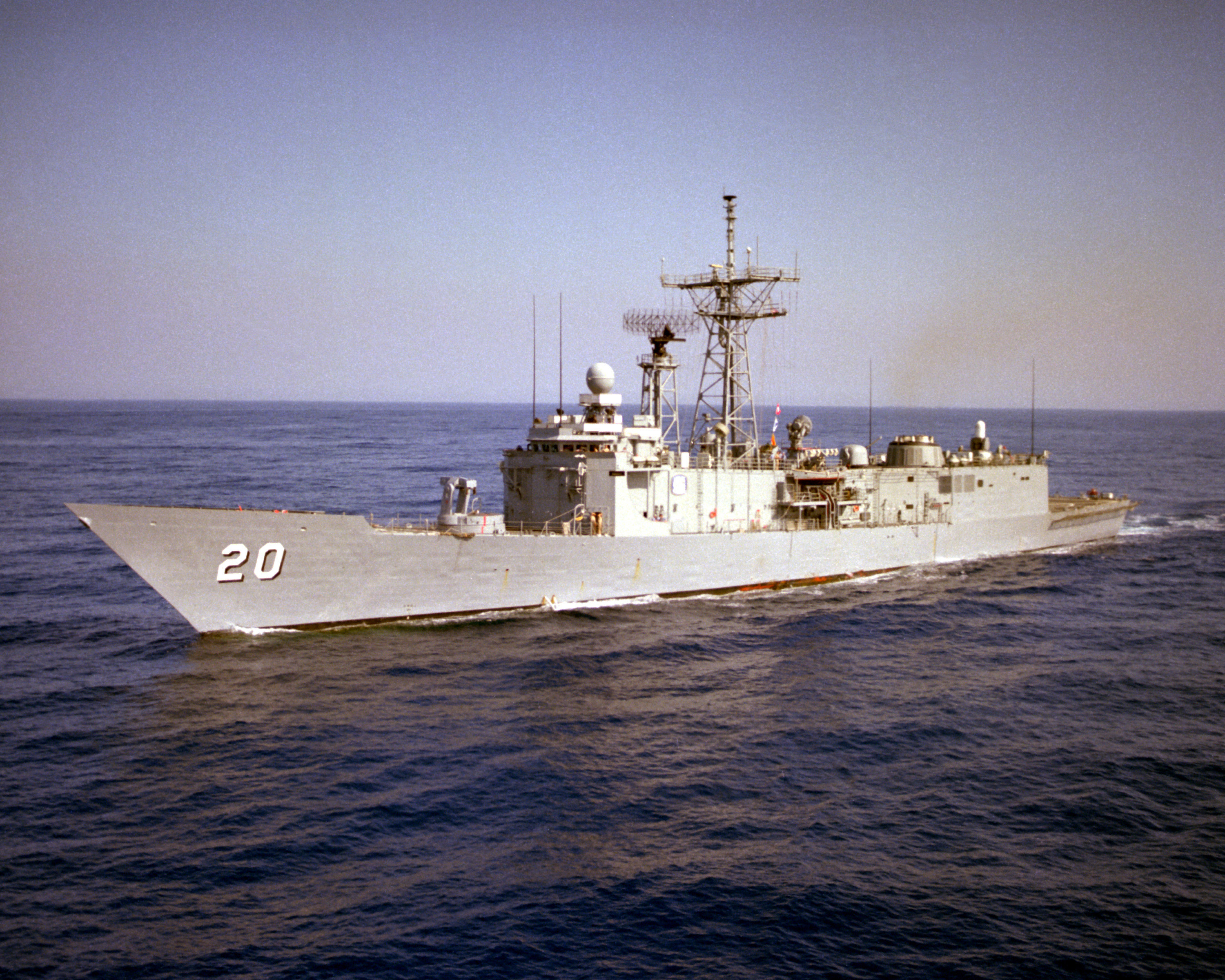 A port bow view of the U.S. Navy guided missile frigate USS Antrim (FFG-20) underway during the NATO exercise Distant Drum.